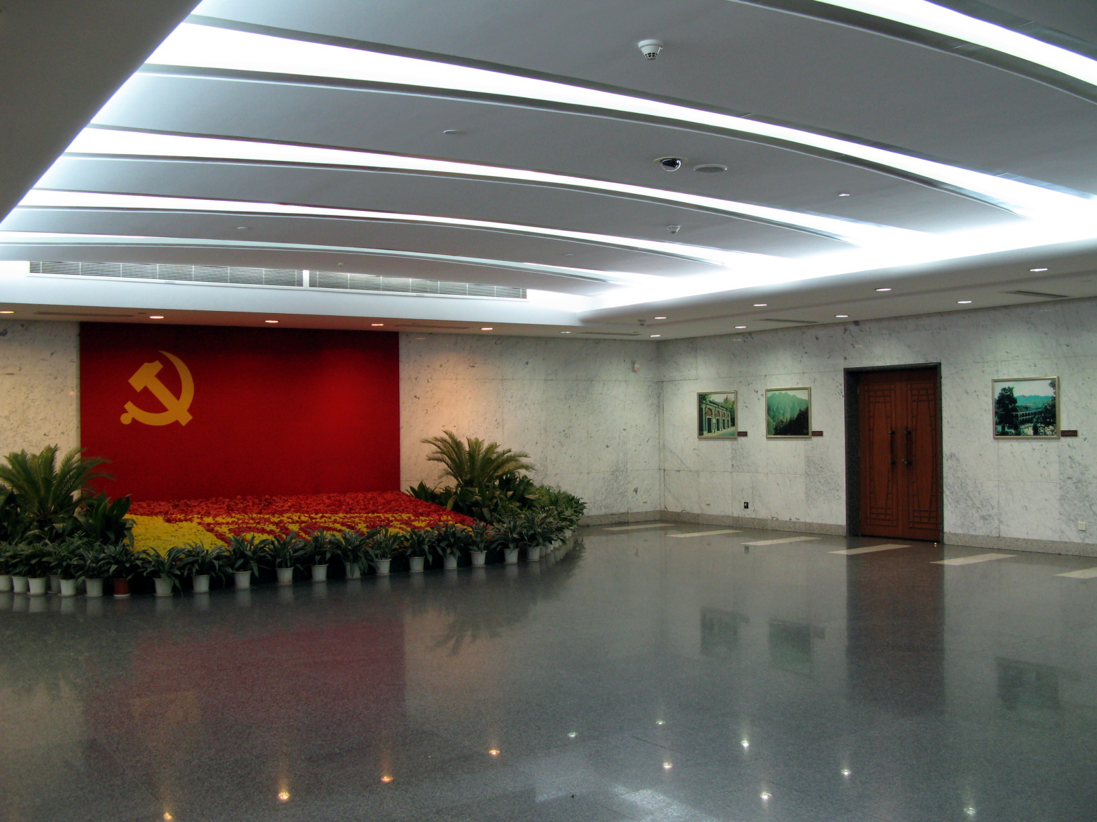 Memorial Site for First National Congress of the CPC Interior 中国共产党第一次全国代表大会会址